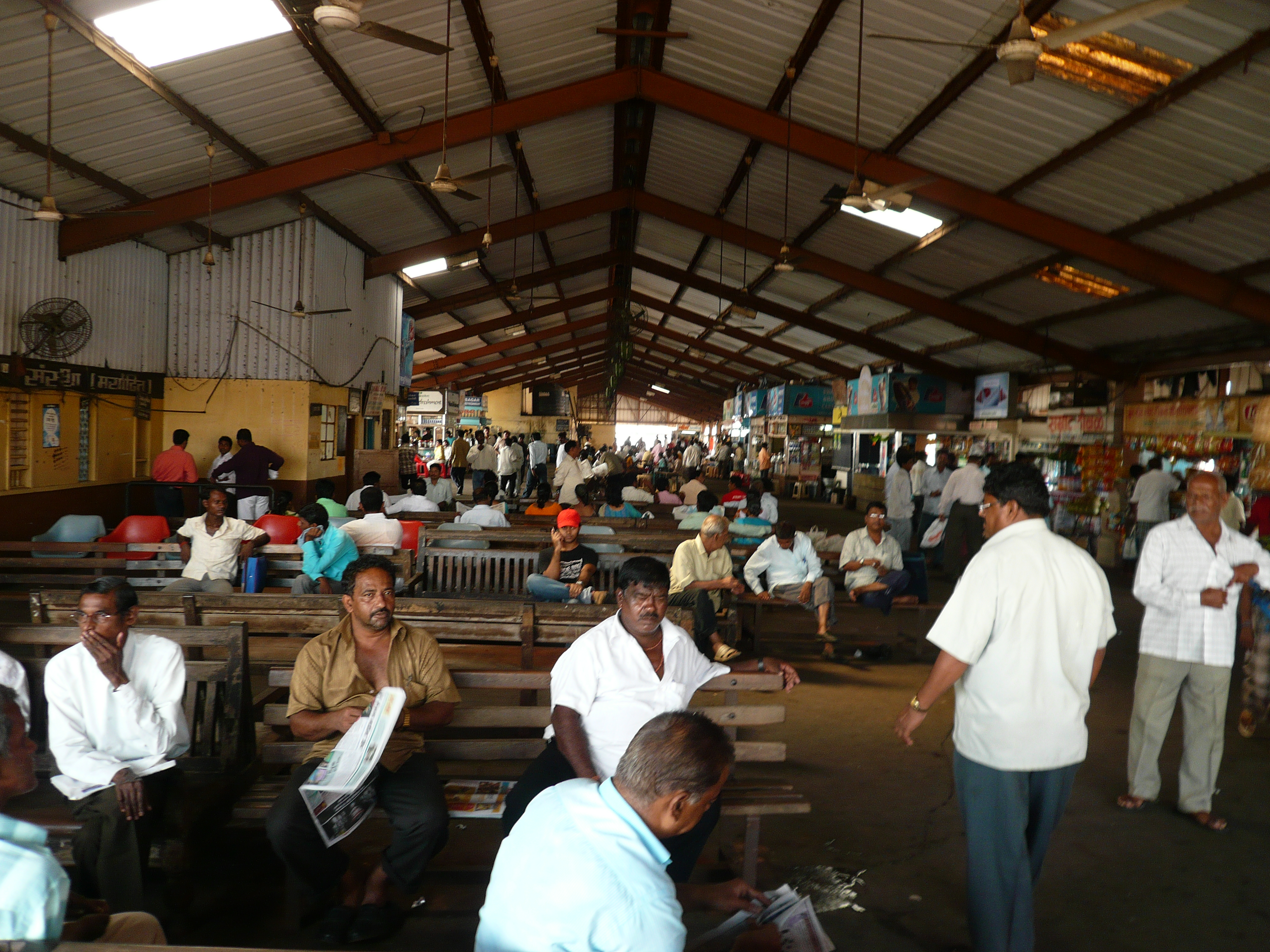 Mumbai Eastern Waterfront